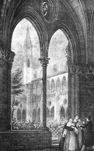 Engraving with Santa Caterina convent cloister, at Barcelona, gothic building dissapeared by 1835. Published in Recuerdos y bellezas de España, 1839